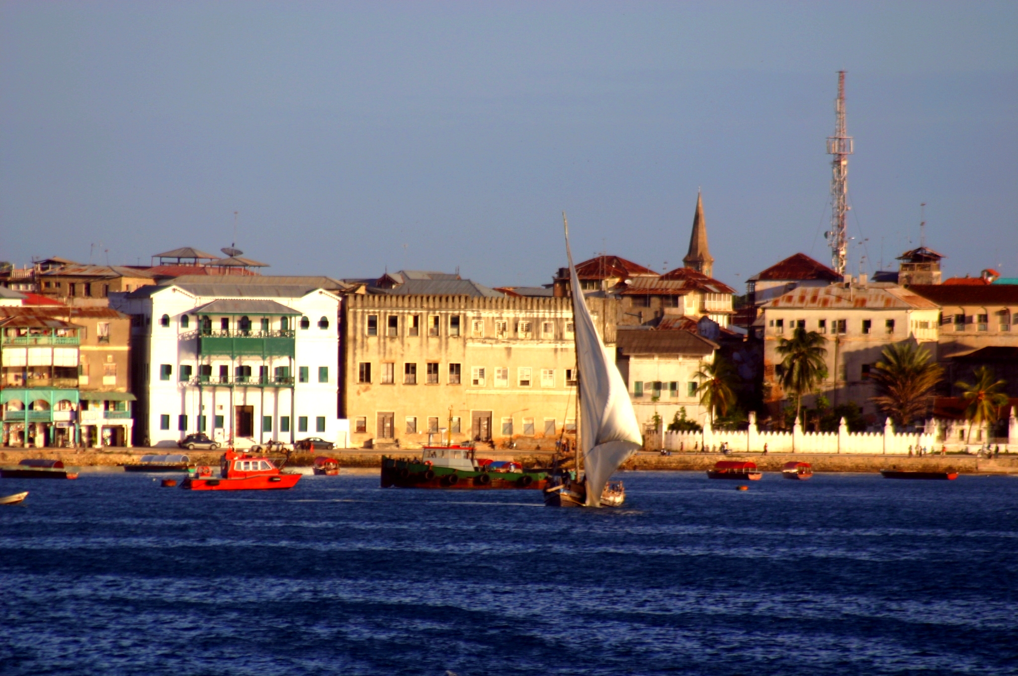 Zanzibar Stone Town. Photograped by Brocken Inaglory